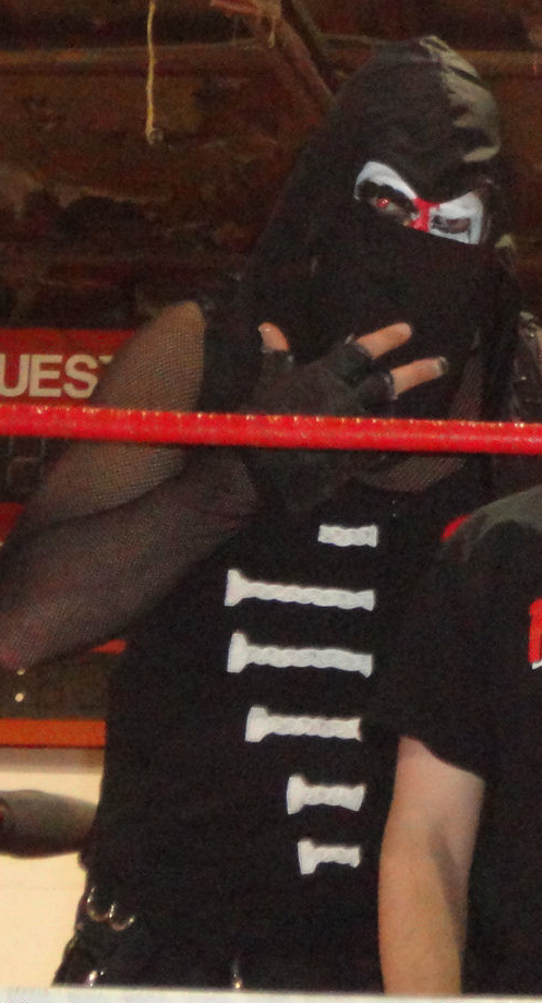 Krimson at a fan meet and greet at Buffalo Championship Wrestling's Easter Extravaganza on April 7th, 2012.